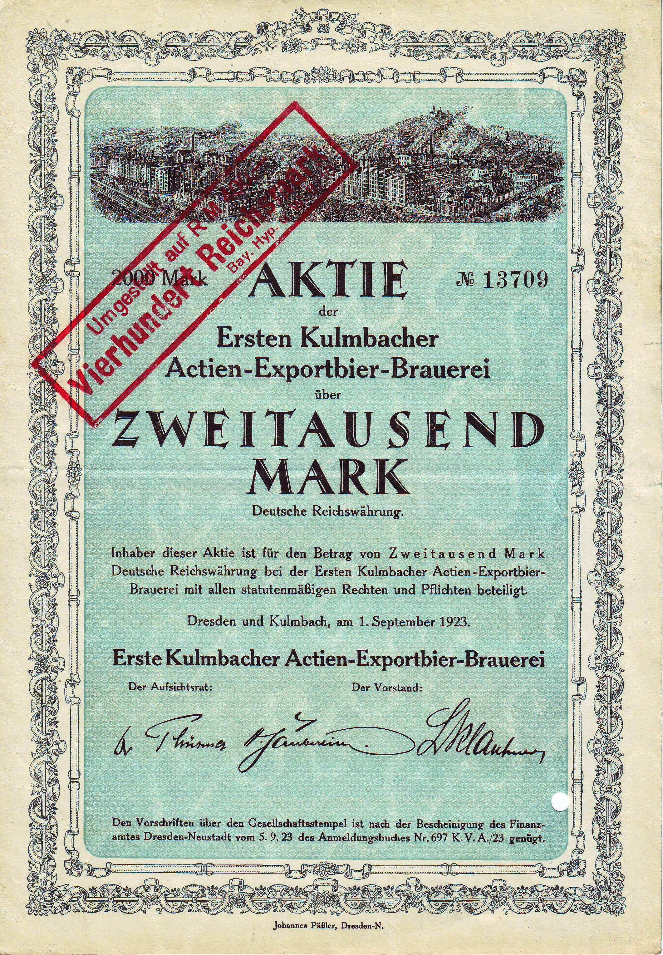 Share of the Erste Kulmbacher Actien-Exportbier-Brauerei, issued 1. September 1923